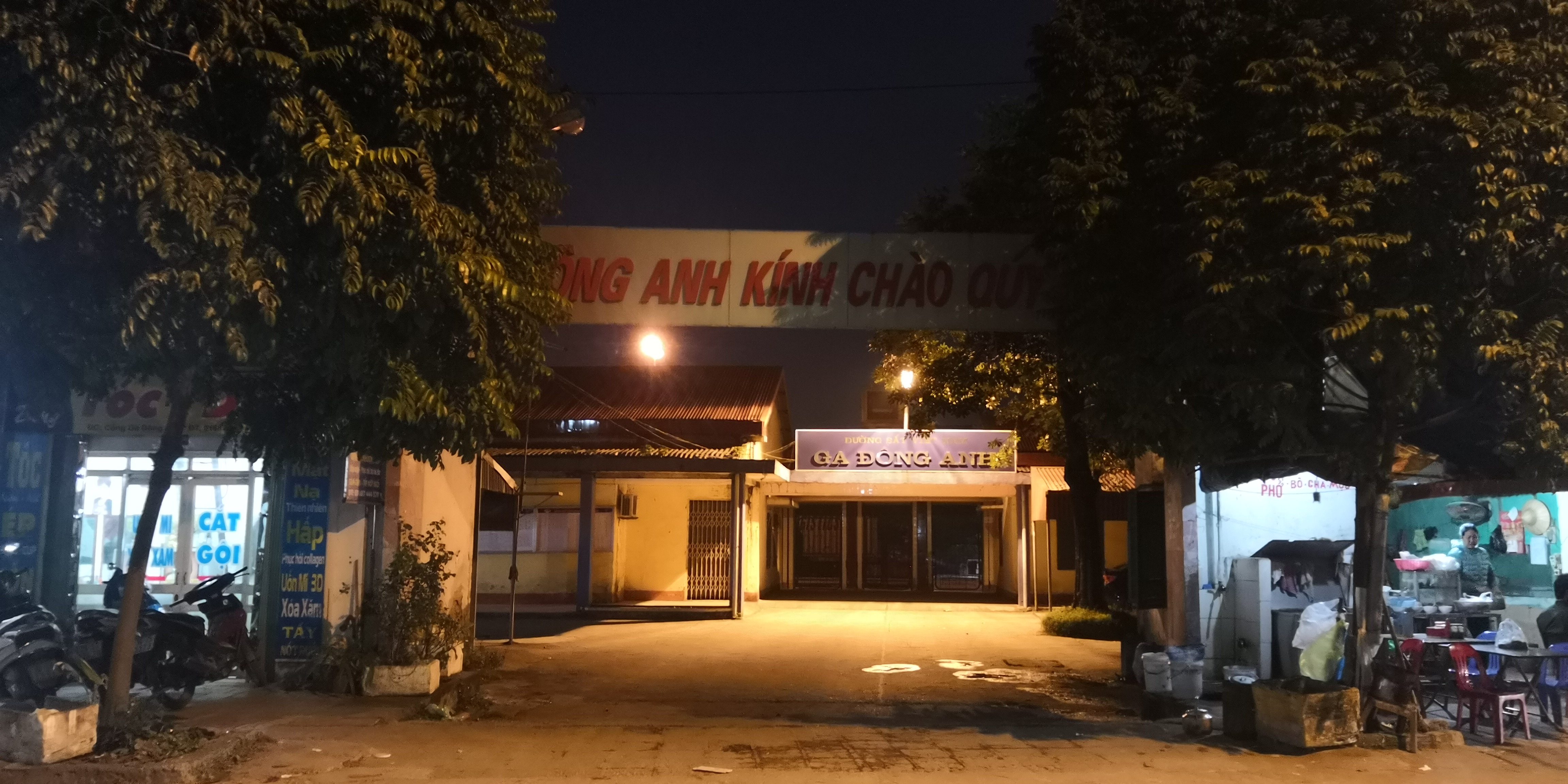 Dong Anh Railway Station (Jan 3, 2019)